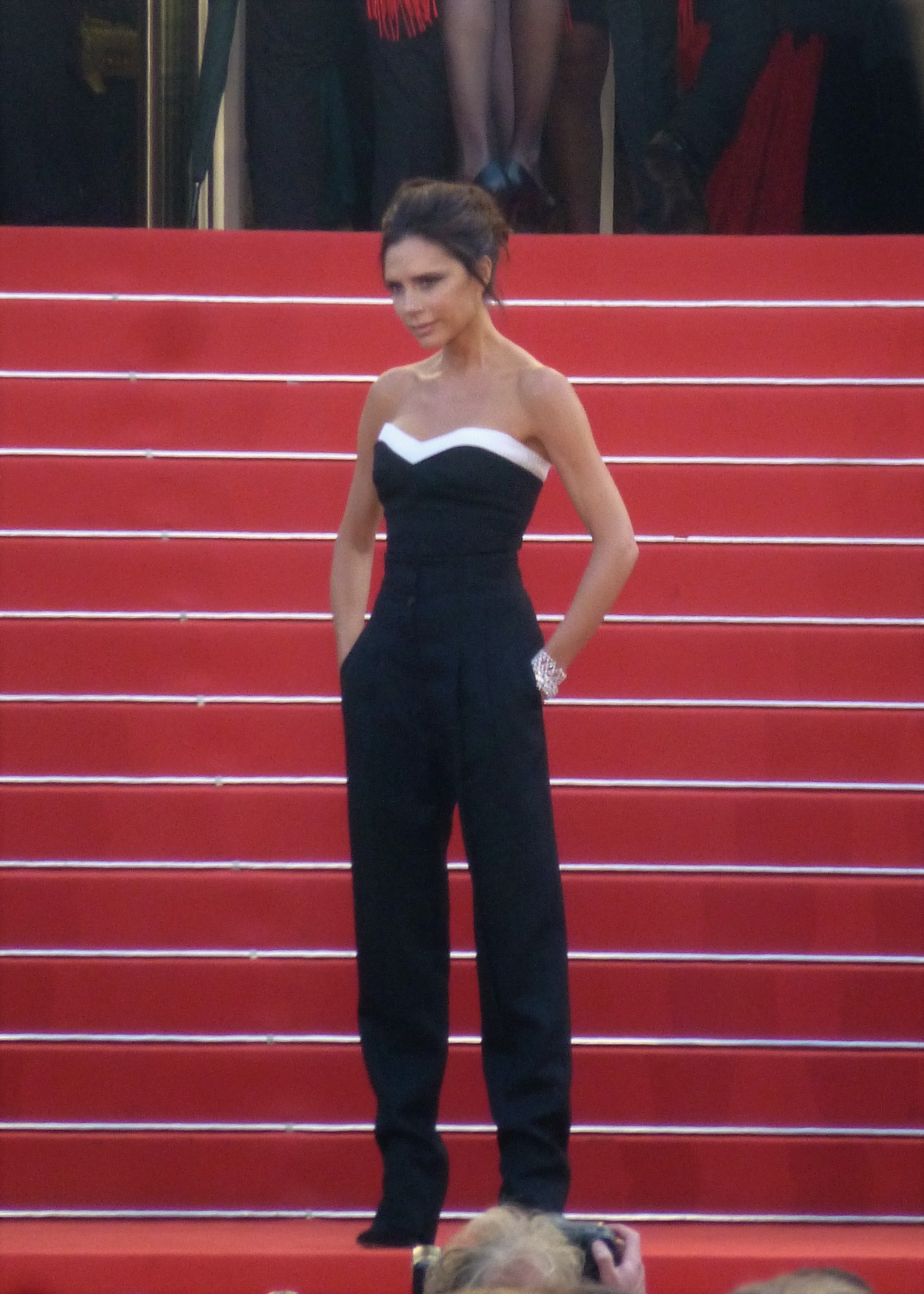 Victoria Beckham at the world premiere of Cafe Society, 2016 Cannes Film Festival